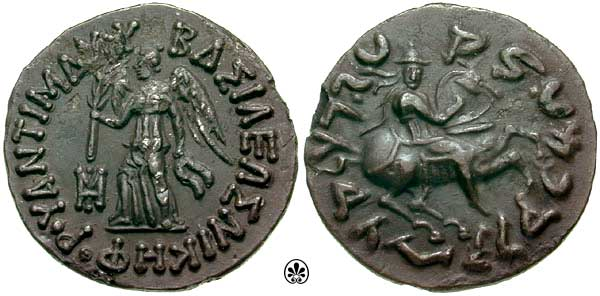 Coin of the Bactrian king Antimachus II